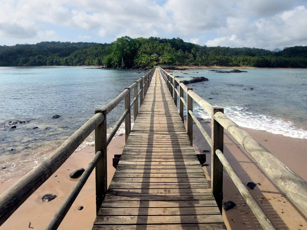 This footbridge connects Bom Bom Island to Principe Island, São Tomé and Príncipe.